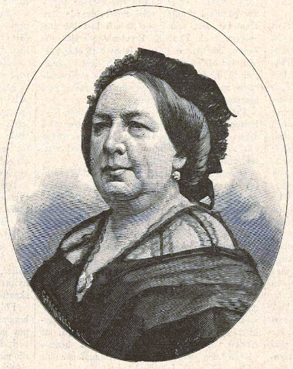 Swedish philantropist Lotten Wennberg (1815-1964)